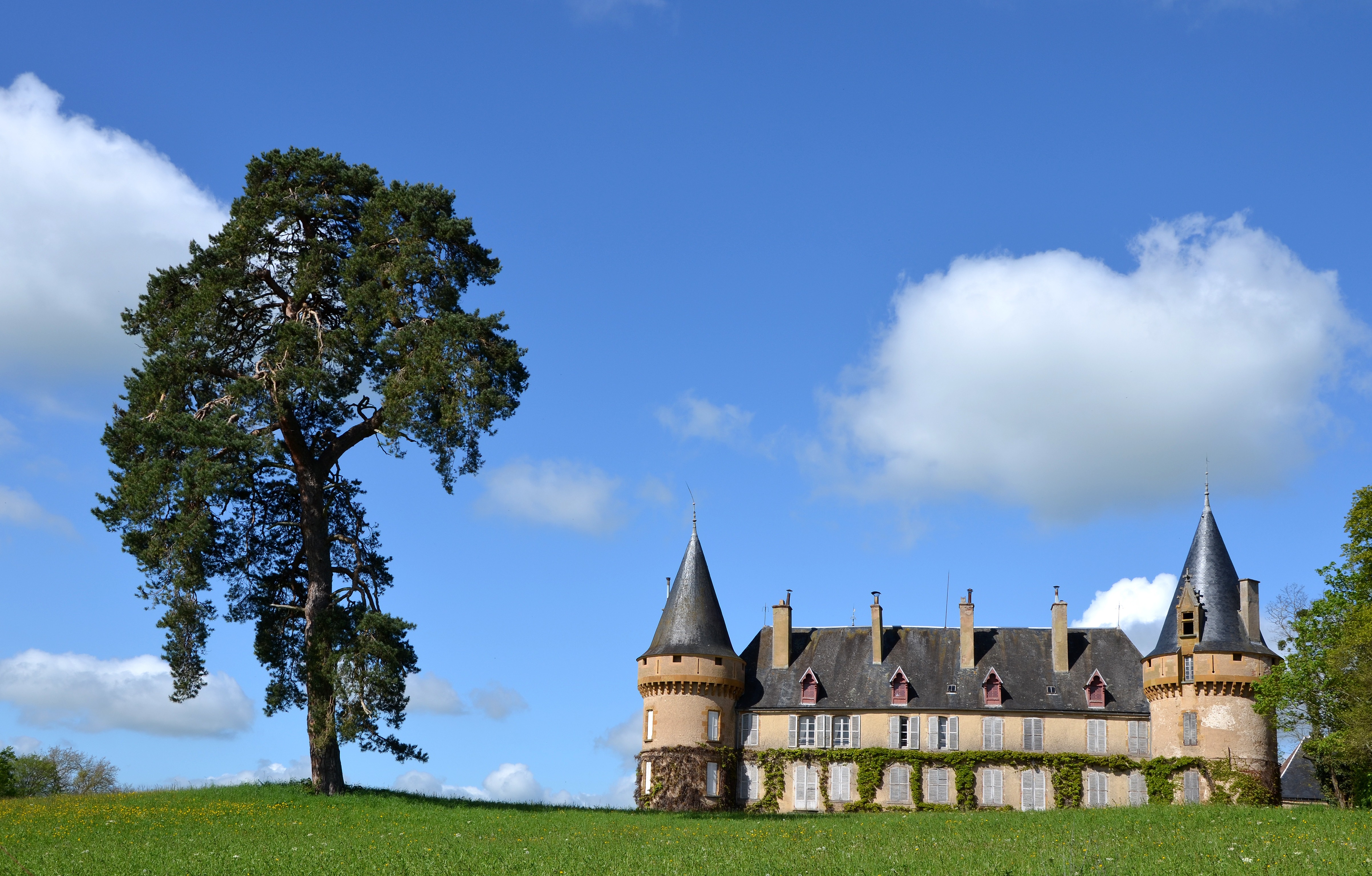 Castle of Villemolin, Morvan, France